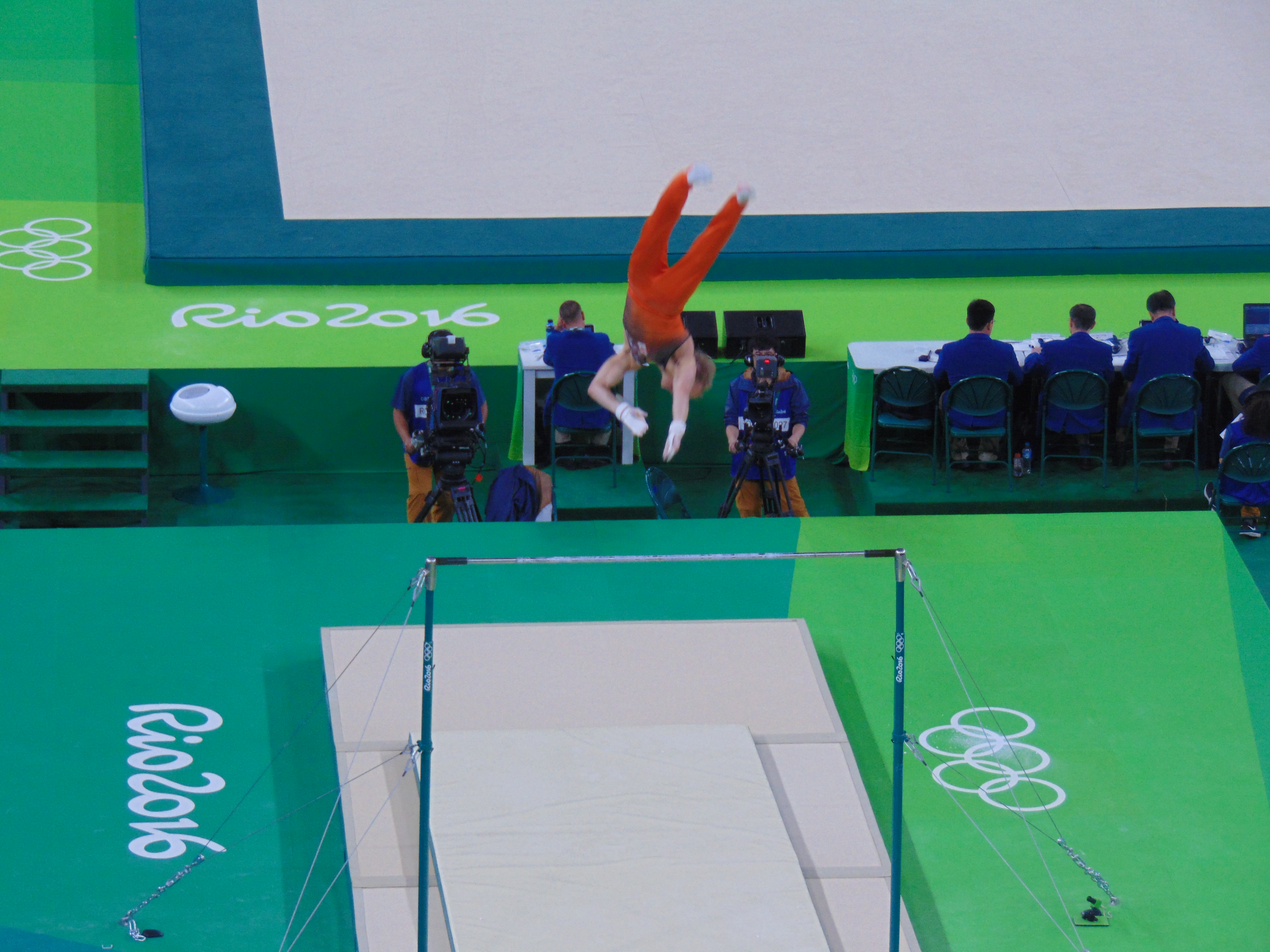 Rio 2016: Artistic gymnastics - men's qualification